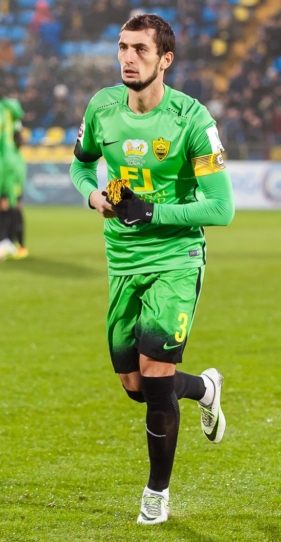 Ali Gadzhibekov with FC Anzhi Makhachkala in a game against FC Rostov.